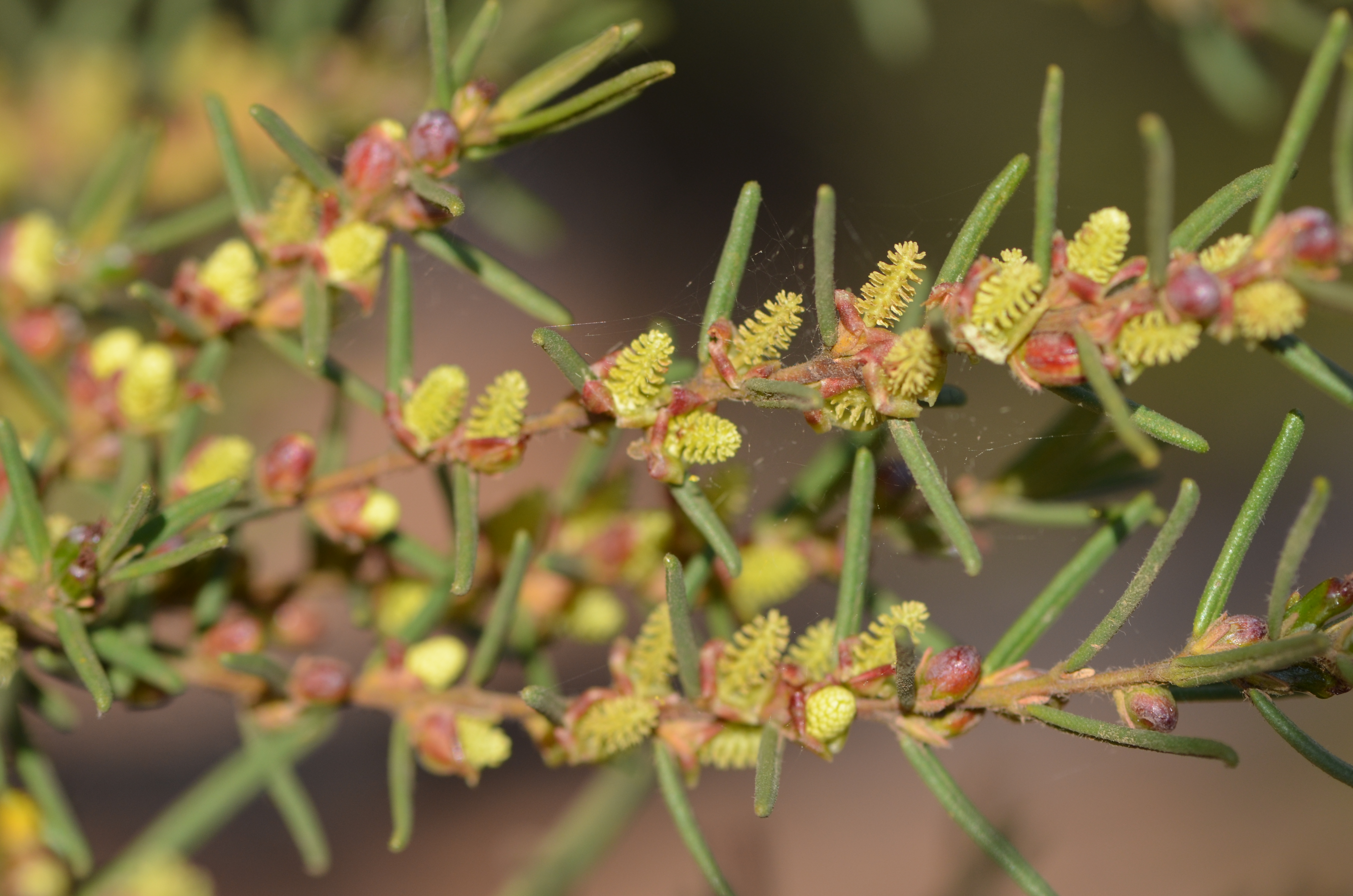 Bertya gummifera, Dandry Gorge, Pilliga